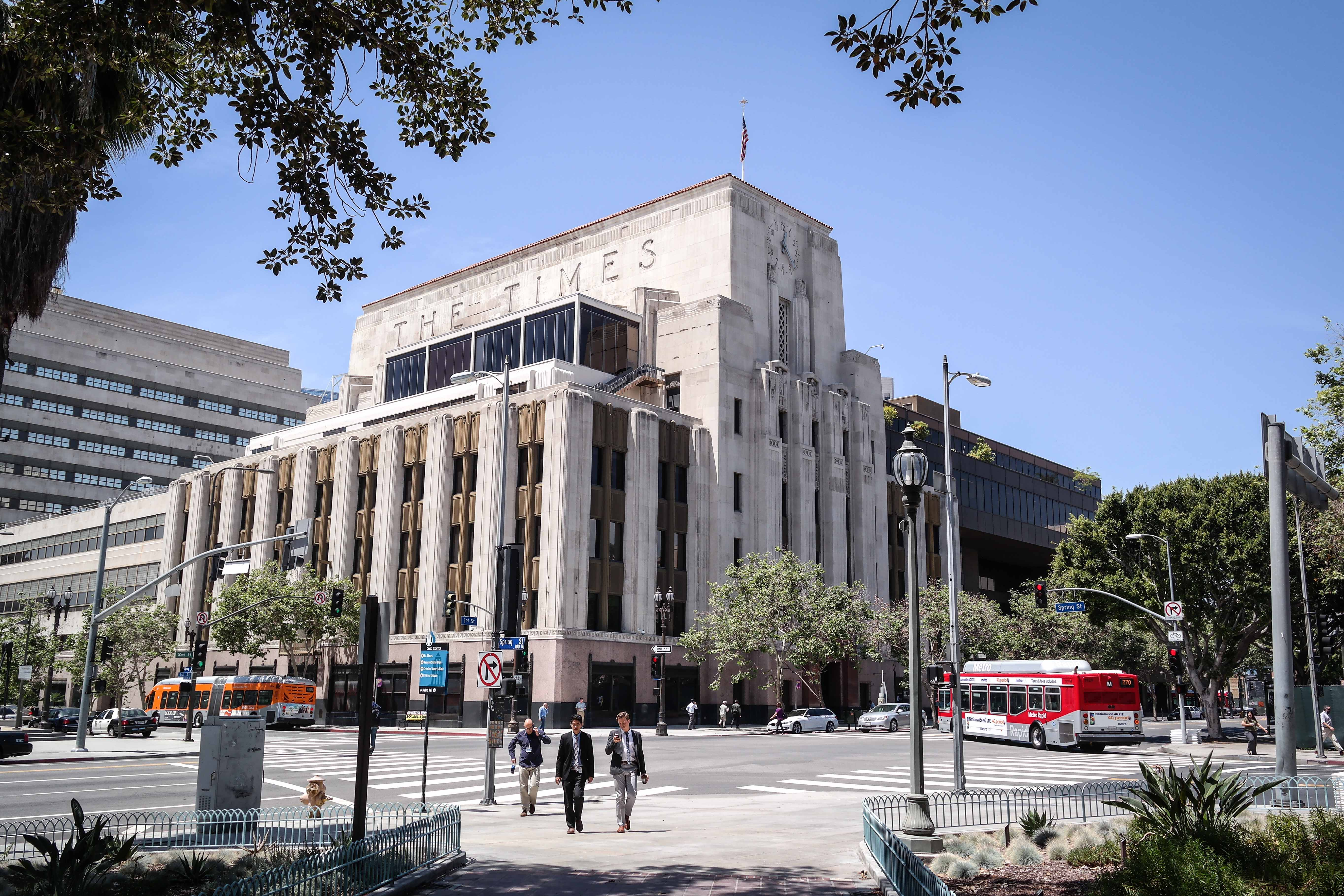 A view of the Los Angeles Times Building — at Spring Street and 1st Street, in the Civic Center district of Downtown Los Angeles, California.